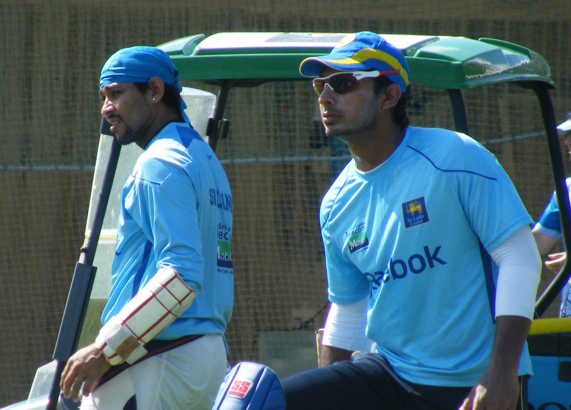 October 2010 at the Sydney Cricket Ground.